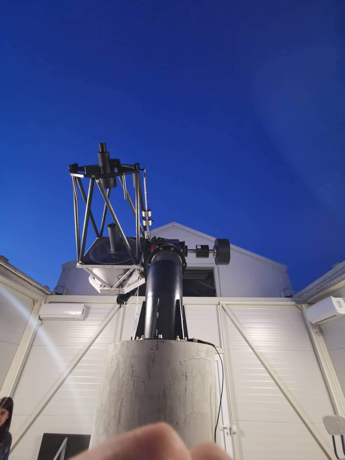 Telescope